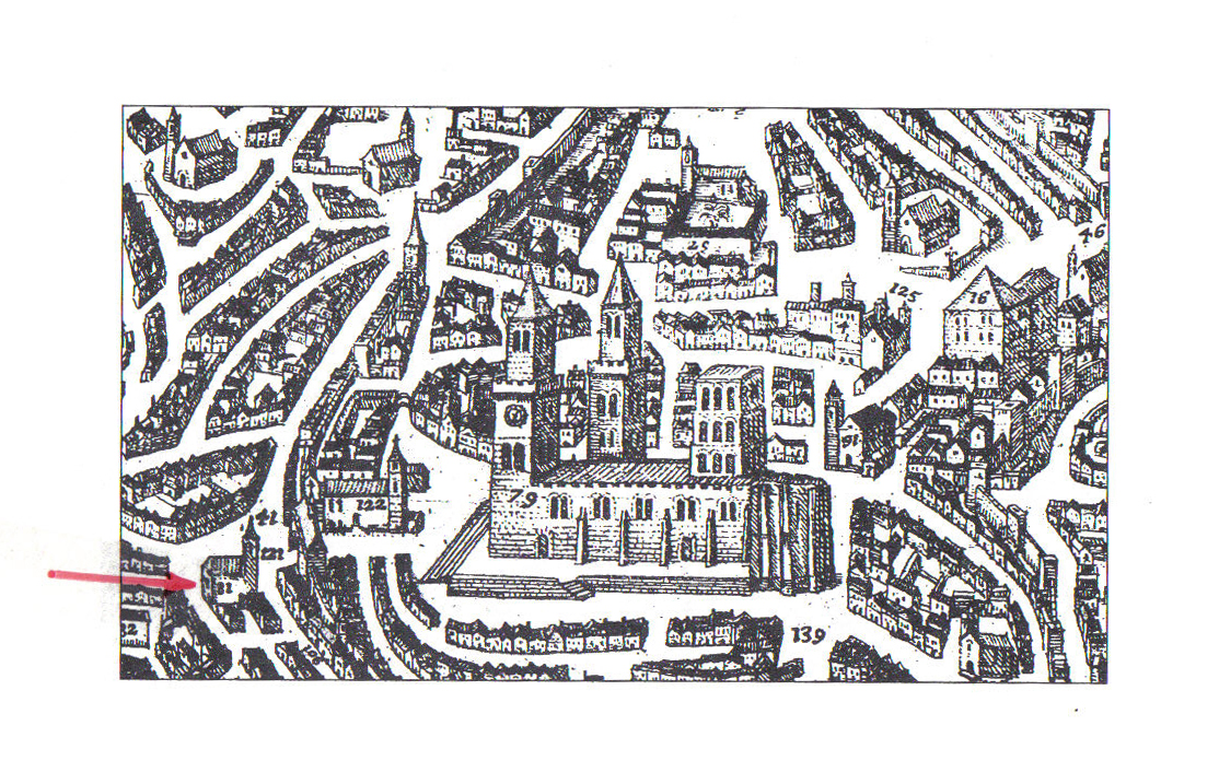 Section of Lisbon around the Cathedral, taken from Georg Braun and Frans Hogenberg, Civitates orbis terrarum (Cologne, 1598), vol. 5